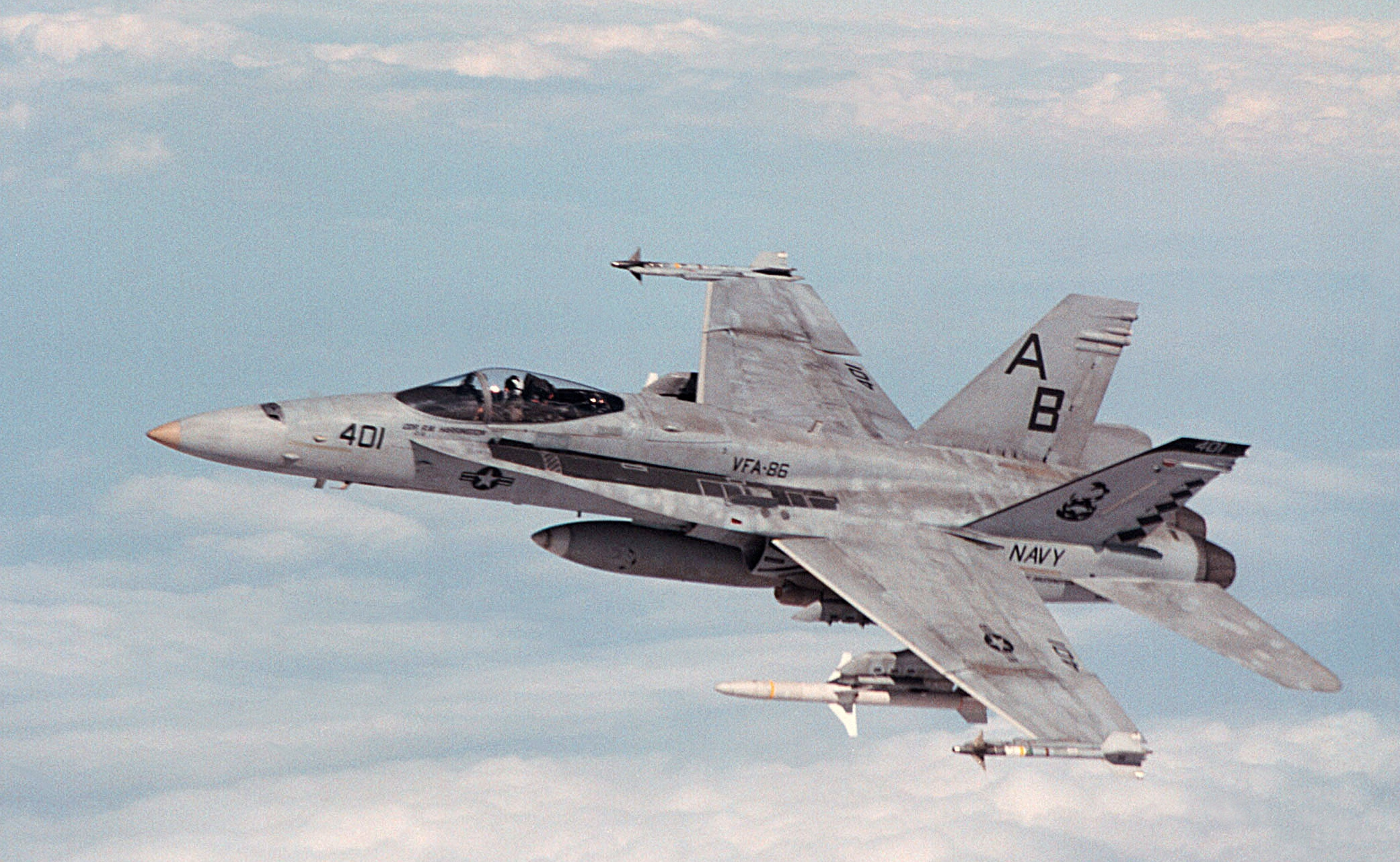 A U.S. Navy McDonnell Douglas F/A-18C Hornet of Strike Fighter Squadron VFA-86 "Sidewinders" in flight over the Persian Gulf. VFA-86 was assigned to Carrier Air Wing 1 (CVW-1) aboard the aircraft carrier USS George Washington (CVN-73) for a deployment to the Mediterranean Sea and the Indian Ocean from 3 October 1997 to 3 April 1998.